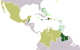 Map of Caricom states, showing: "#2d5f2c" (dark green) full members "#c5d01a" (light green) associate members "#c2c572" (beige) observers Based on the blank world map. To the extent that I have had any original input into this map, I release my rights over it. QuartierLatin1968 18:28, 11 March 2006 (UTC)